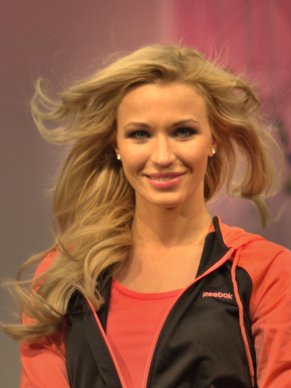 Gabriela Kořínková at Olympia Fashion Show 2014 (Brno)